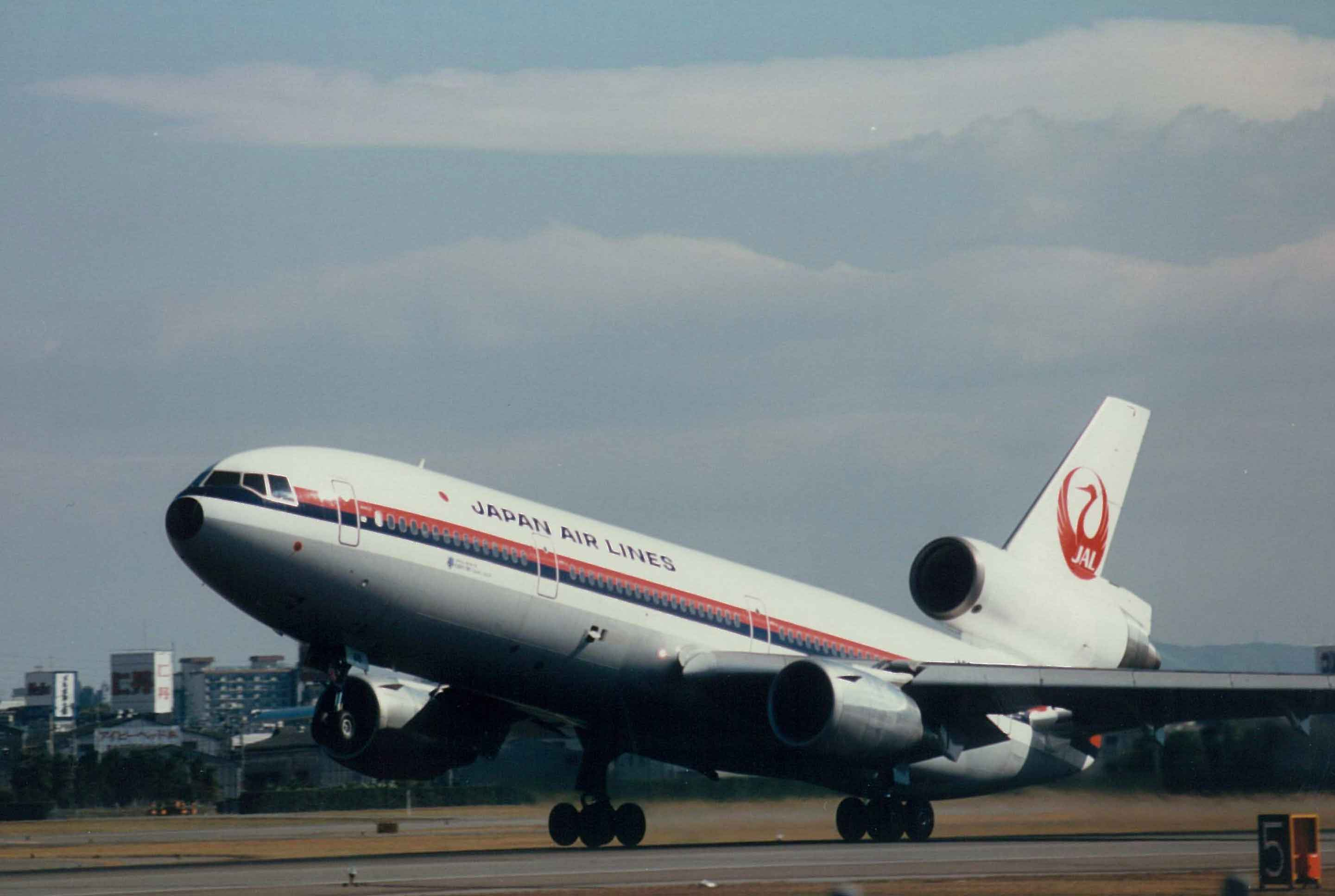 It is JAL which it photographed in Itami, Osaka Airport.